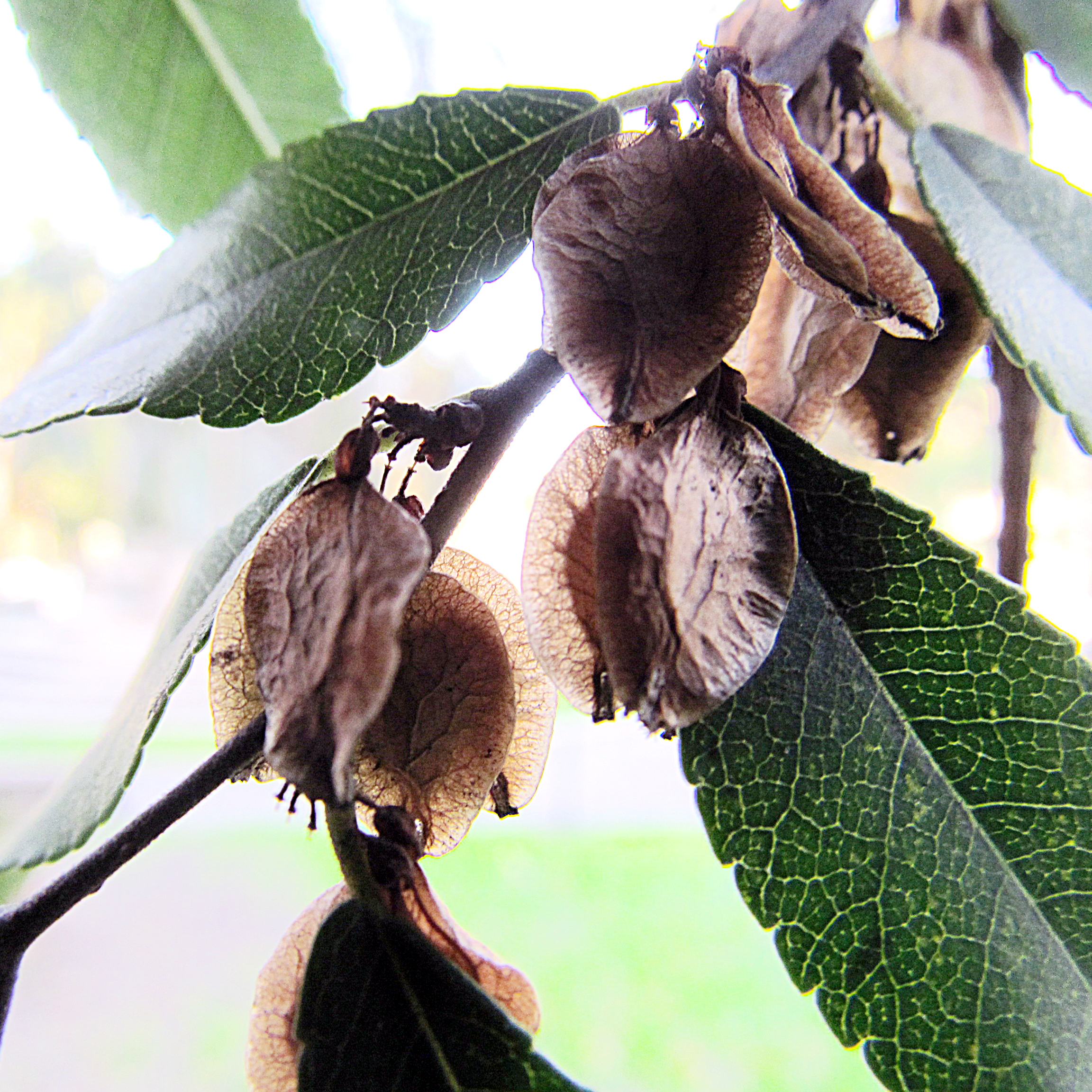 Ulmus parfifolia leaves and fruits